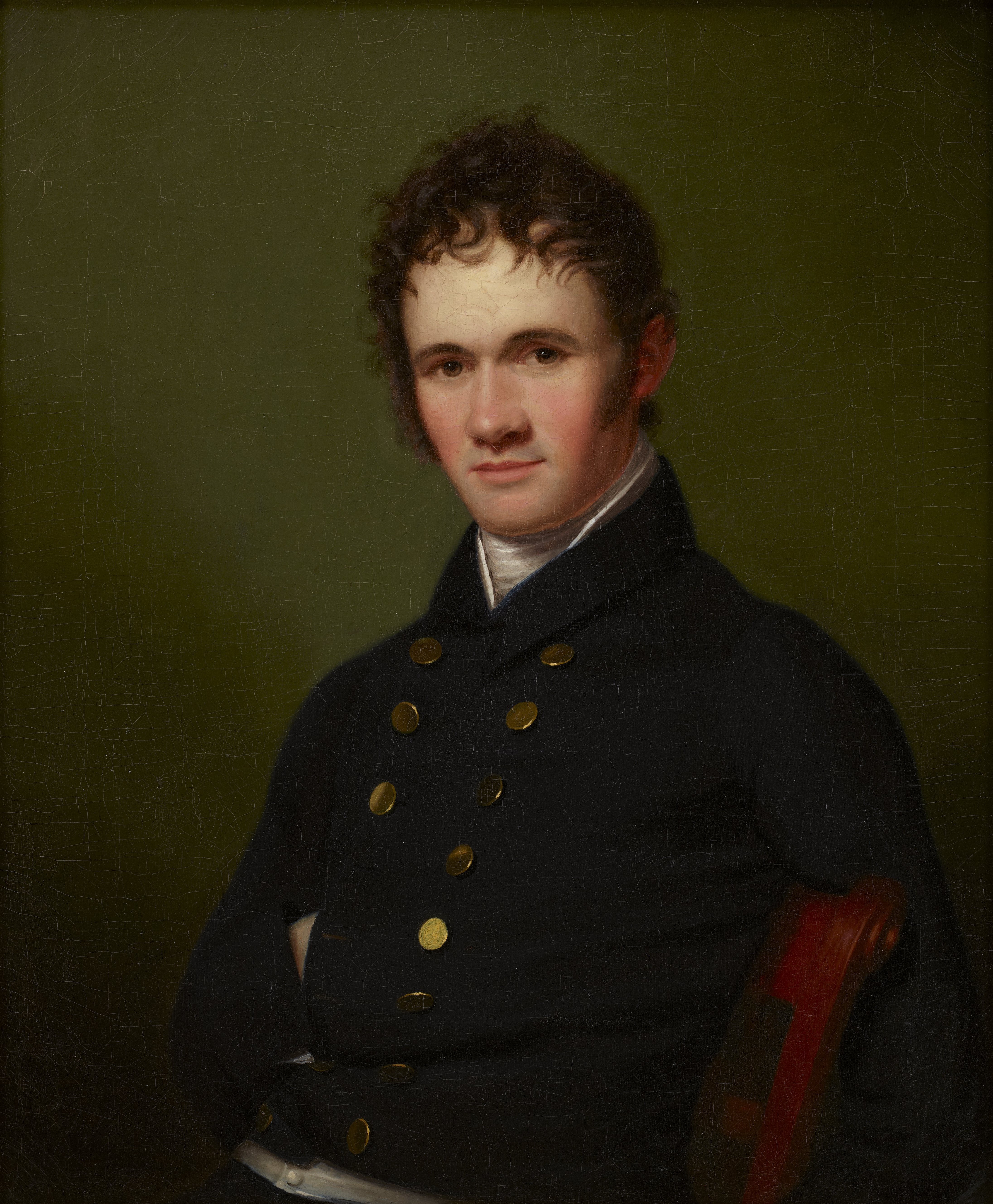 Portrait of a man, waist-length, seated.